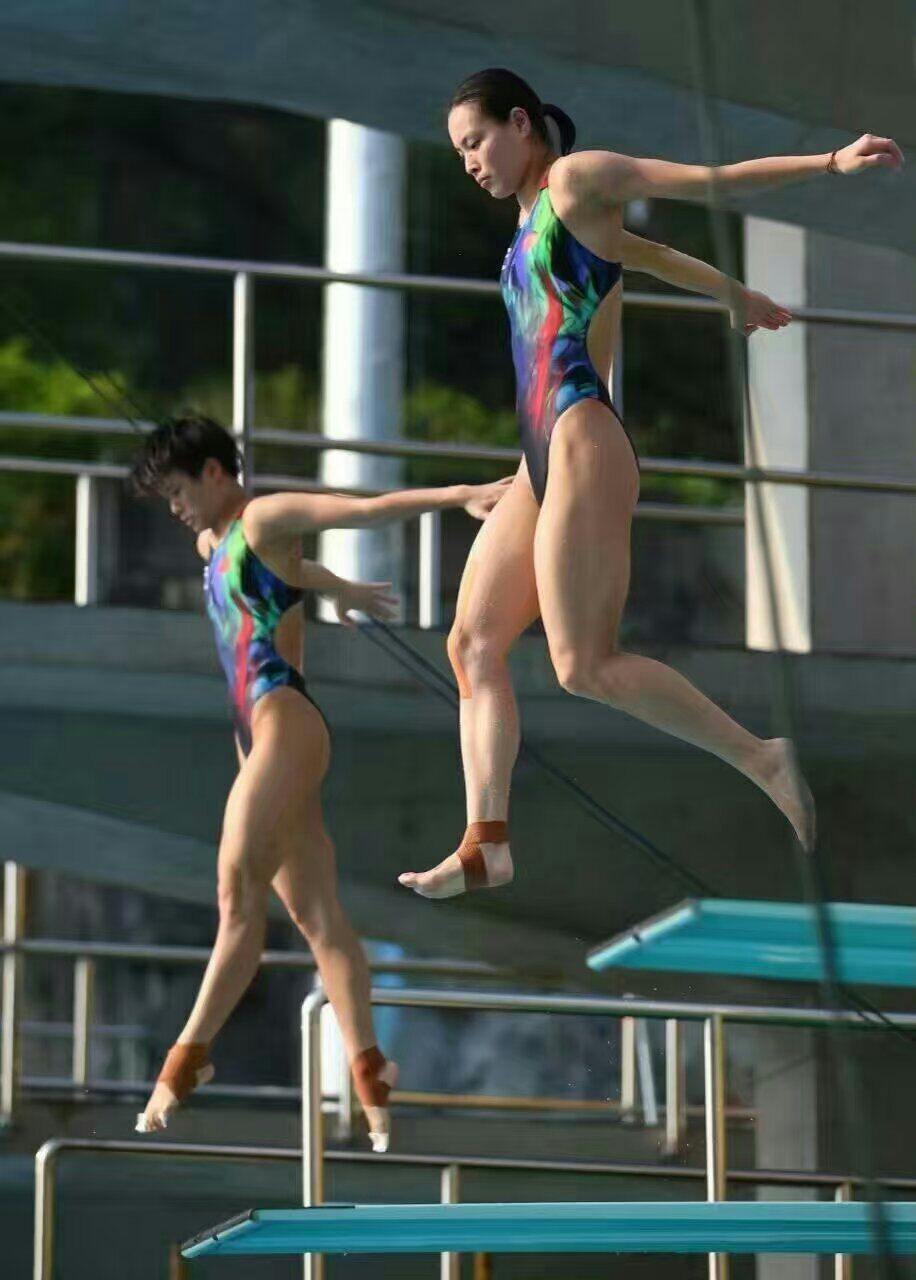 One-piece swimsuit for diving in Olympics